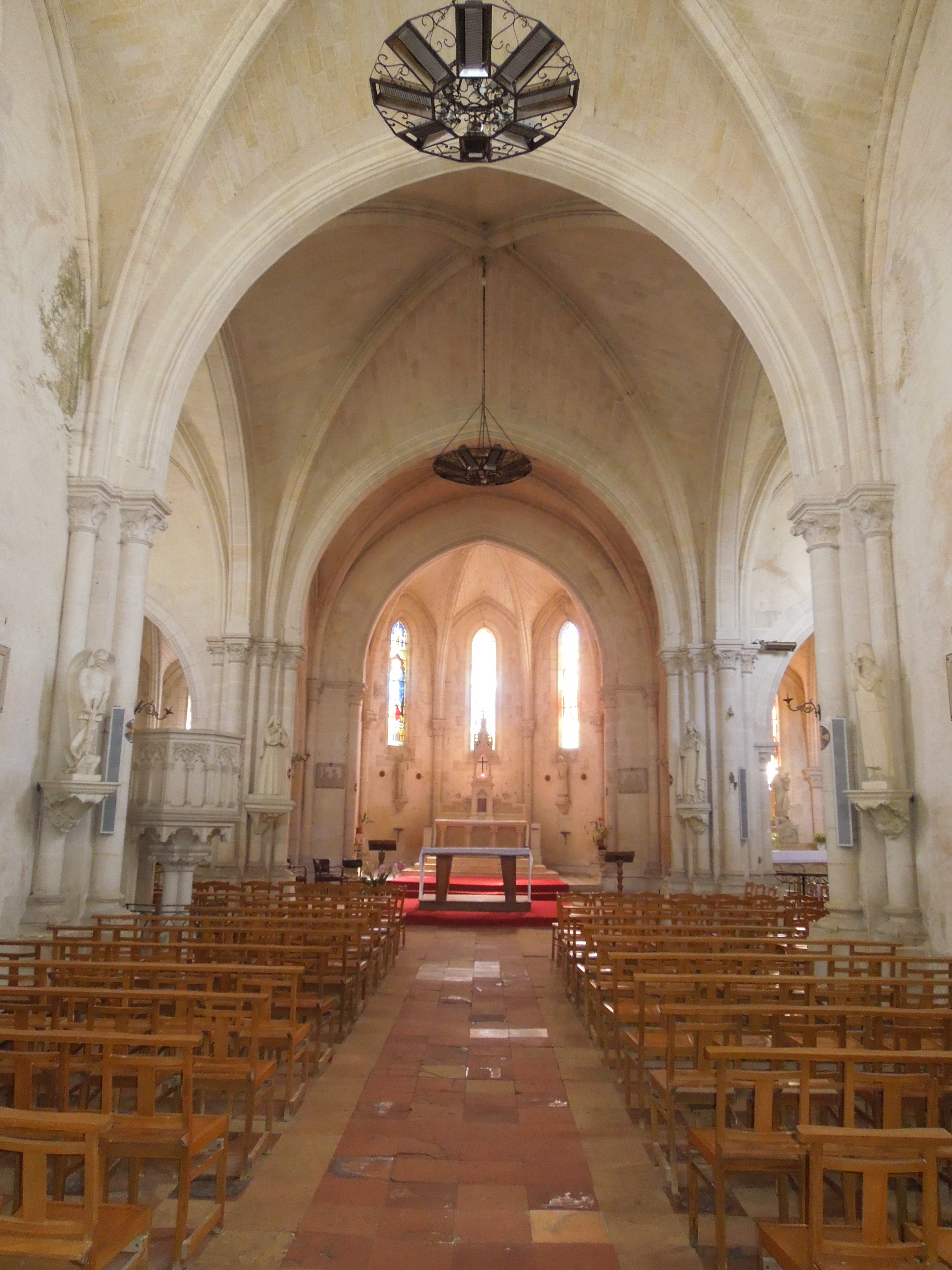 Saint-Genis-de-Saintonge, interior of the church Immaculée Conception